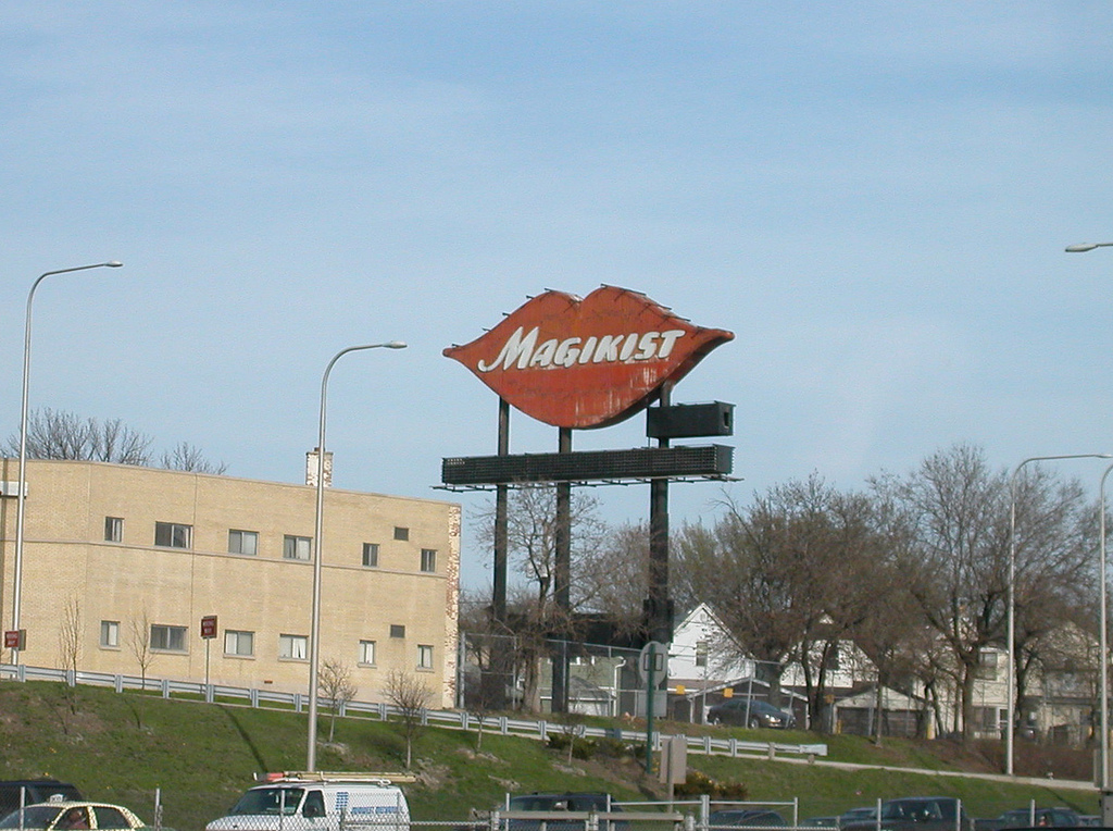 Photo of the Magikist Lips sign on the Kennedy Expressway near Montrose Avenue.